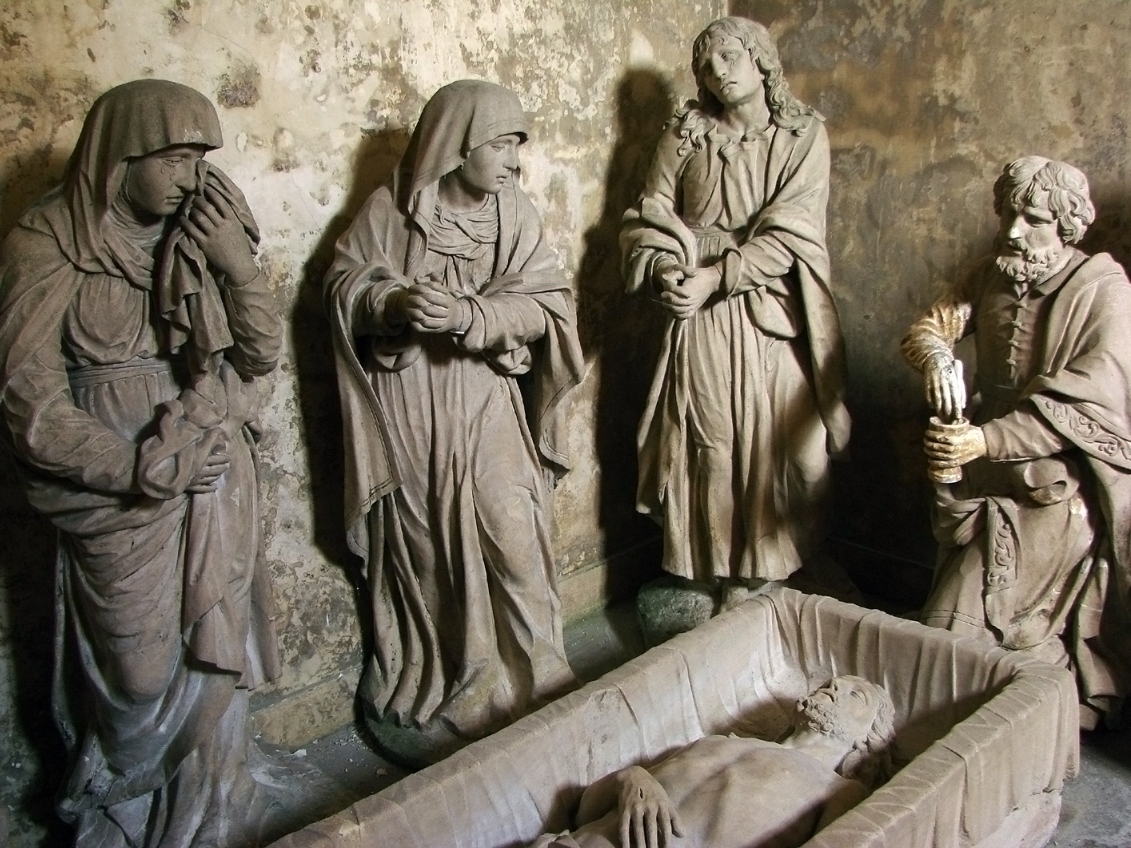 Entombment of Christ, 1672, in Saint-Martin Church in Arc-en-Barrois (Haute-Marne, France).